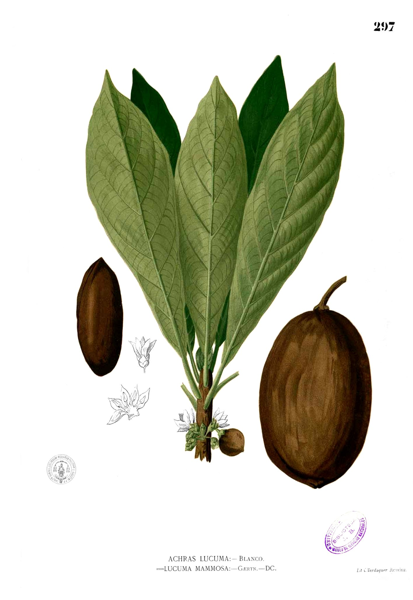 Plate from book